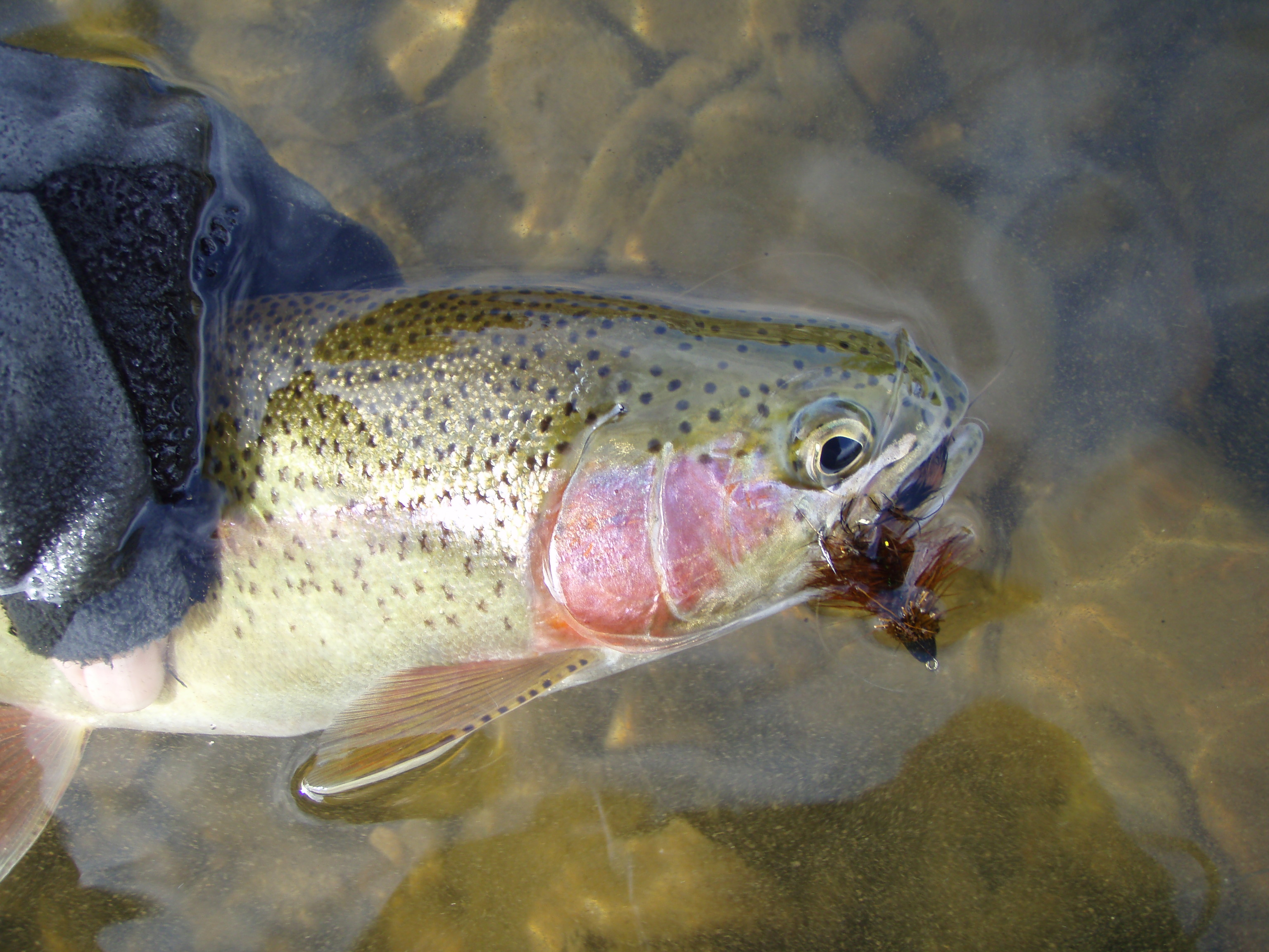 Rainbow Trout From Big Hole River Near Twin Bridges, MT